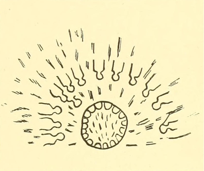 Drawing from the Winter Count of Sioux (Lakota) Indian Lone Dog. The Sioux killed 30 barricaded Crows in a war Group in the Big Dry area in April 1870